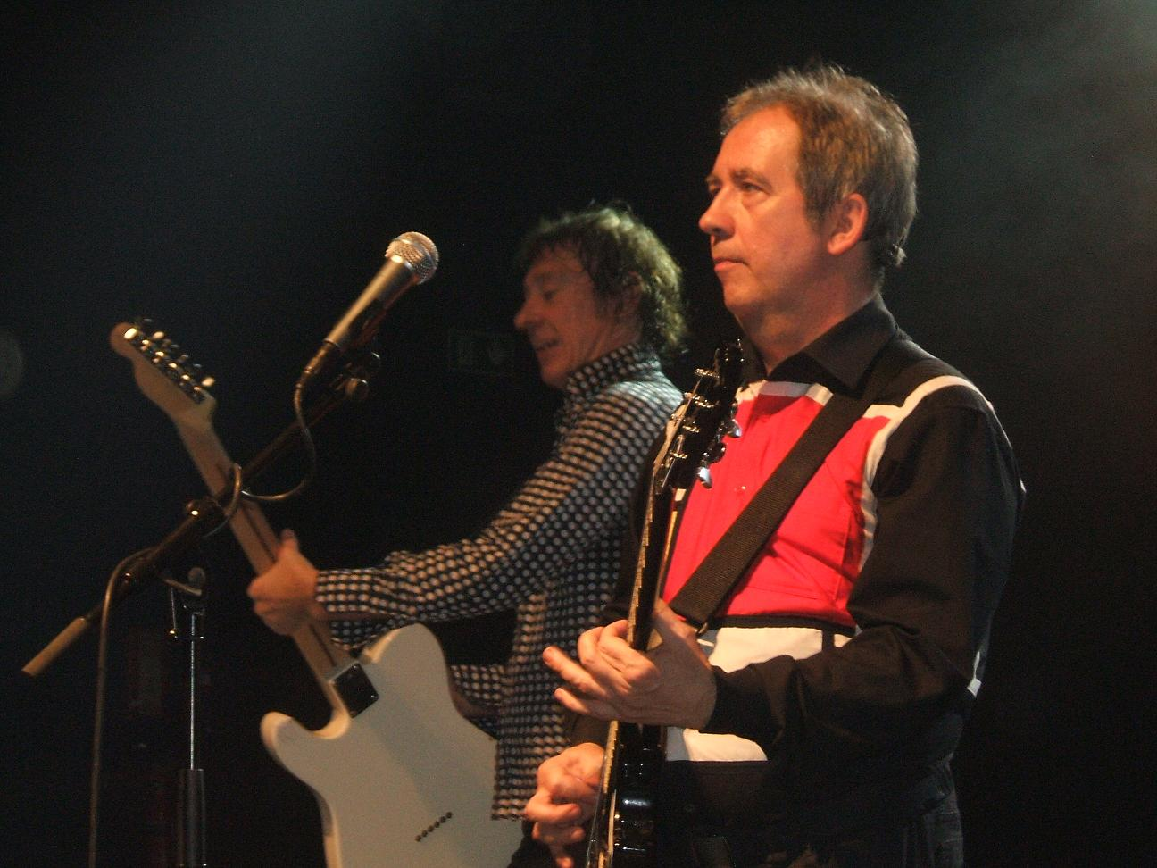 This work is licensed under the Creative Commons Attribution License. Pete Shelley singing with the Buzzcocks. Shepherds Bush Empire. January 30 2009. Uploaded per request at Wikipedia:Images for upload.